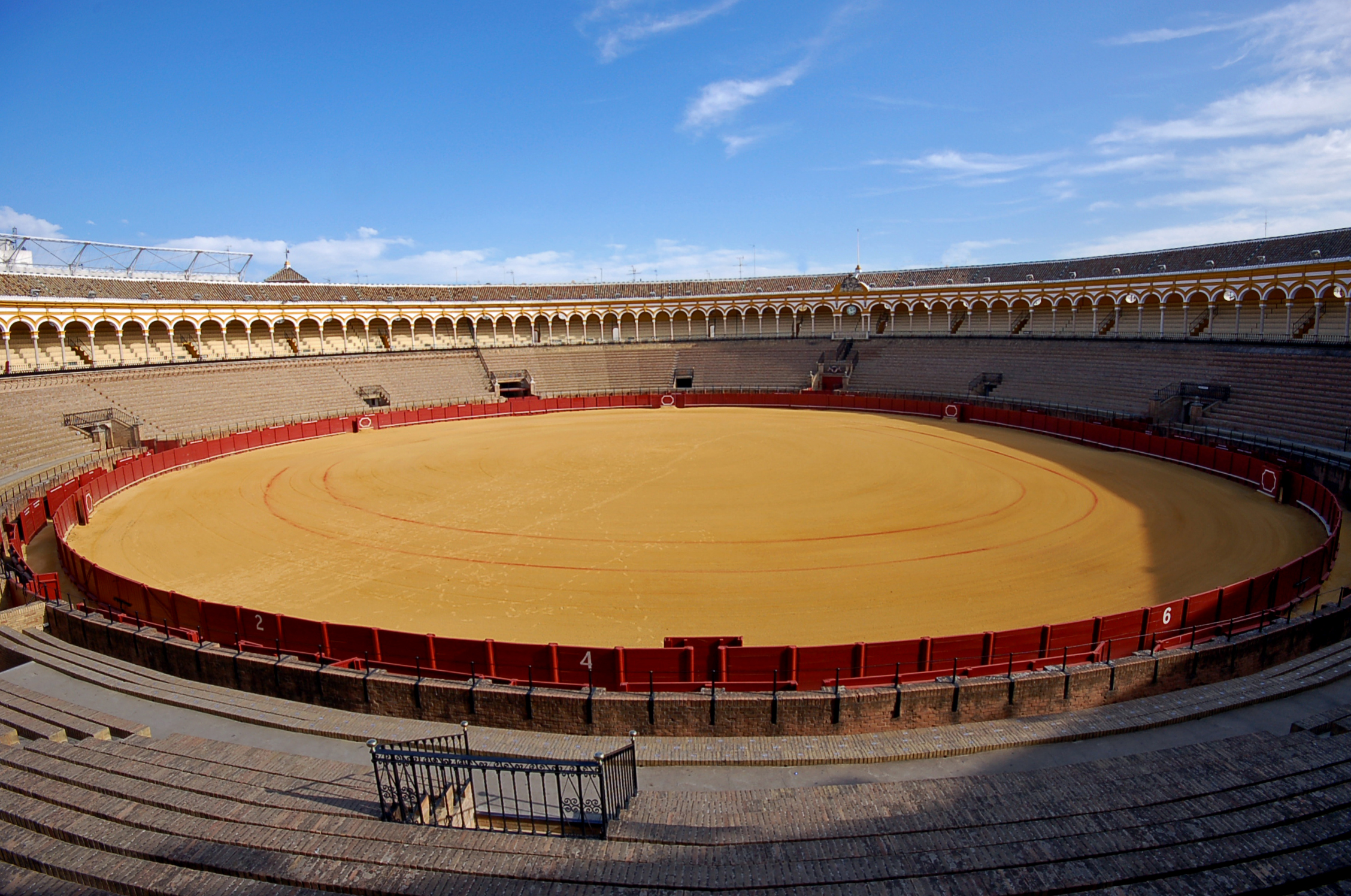 Bullring in Seville, Spain